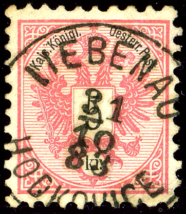 Austrian KK 5 kreuzer stamp, bilingual cancelled in LIEBENAU - HODKOVICE, in 1883, Bohemia